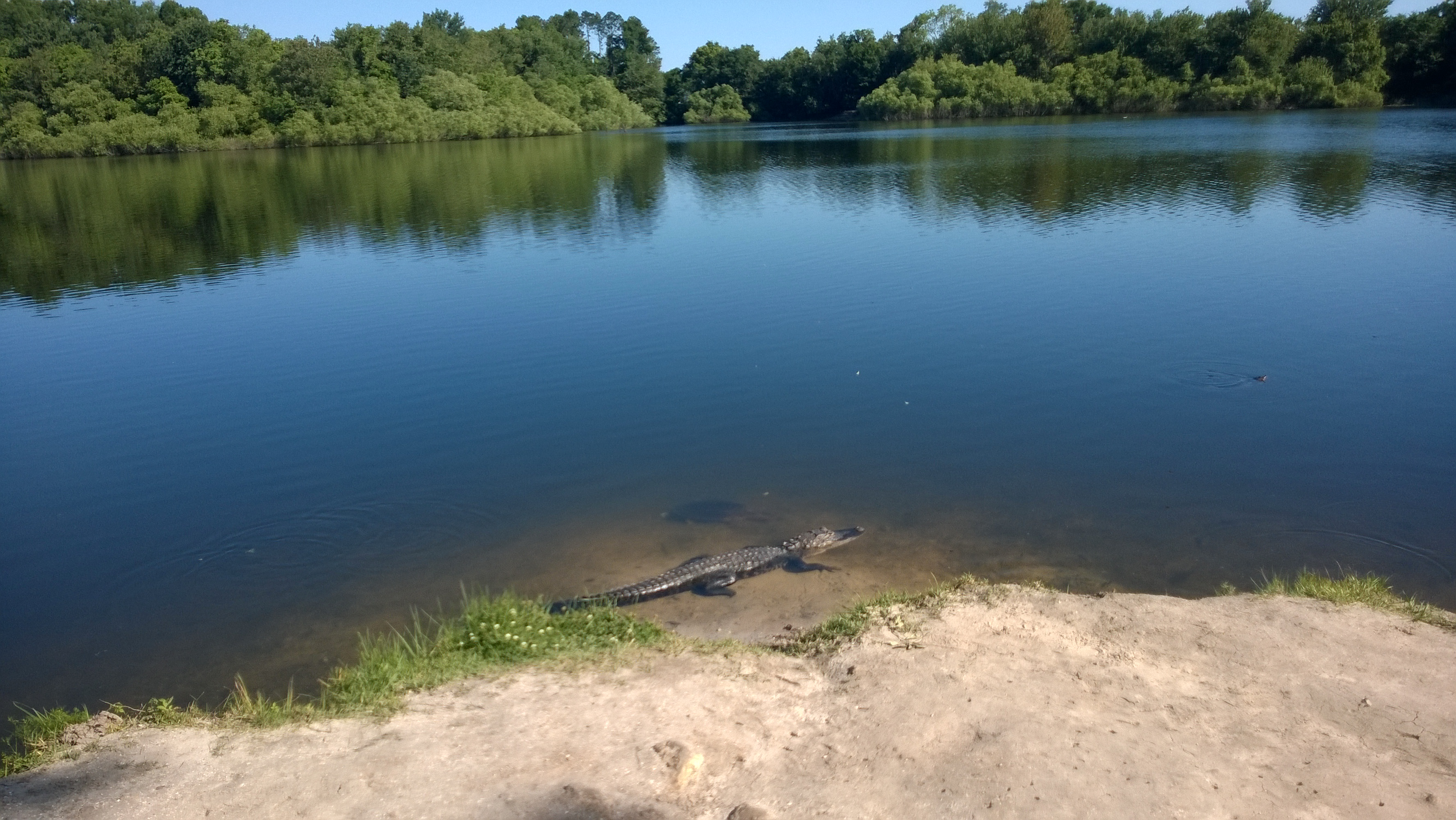 Alligator on the shore of Lake Alice within the University of Florida campus in Gainesville, Florida (also in picture are two softshell turtles)